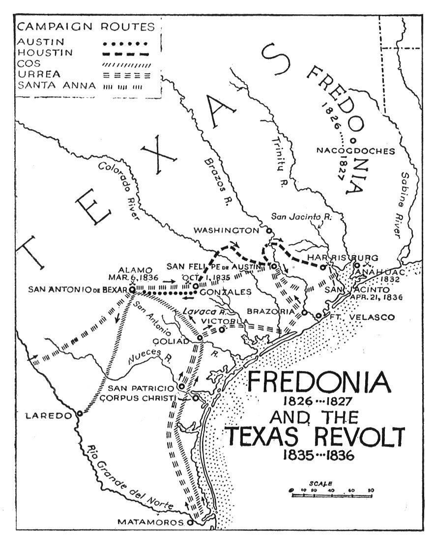 campaign routes for the Texas Revolution